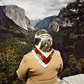 Yosemite National Park